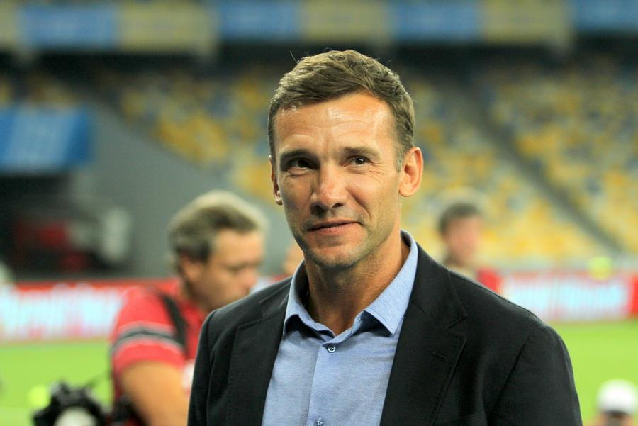 Shevchenko during Ukraine - Iceland in September 2016.